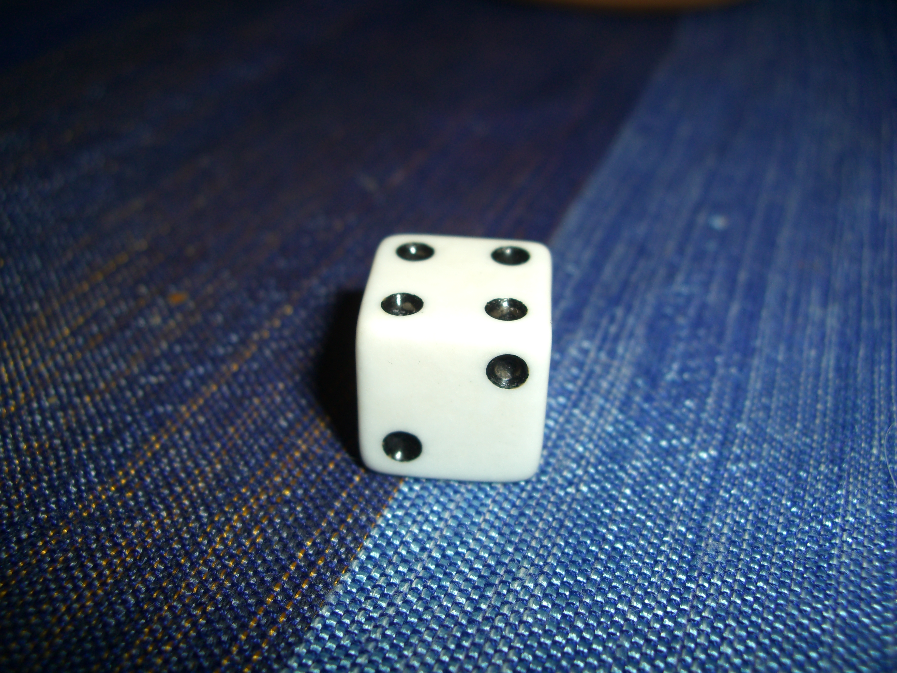 A dice with number 4 upside.